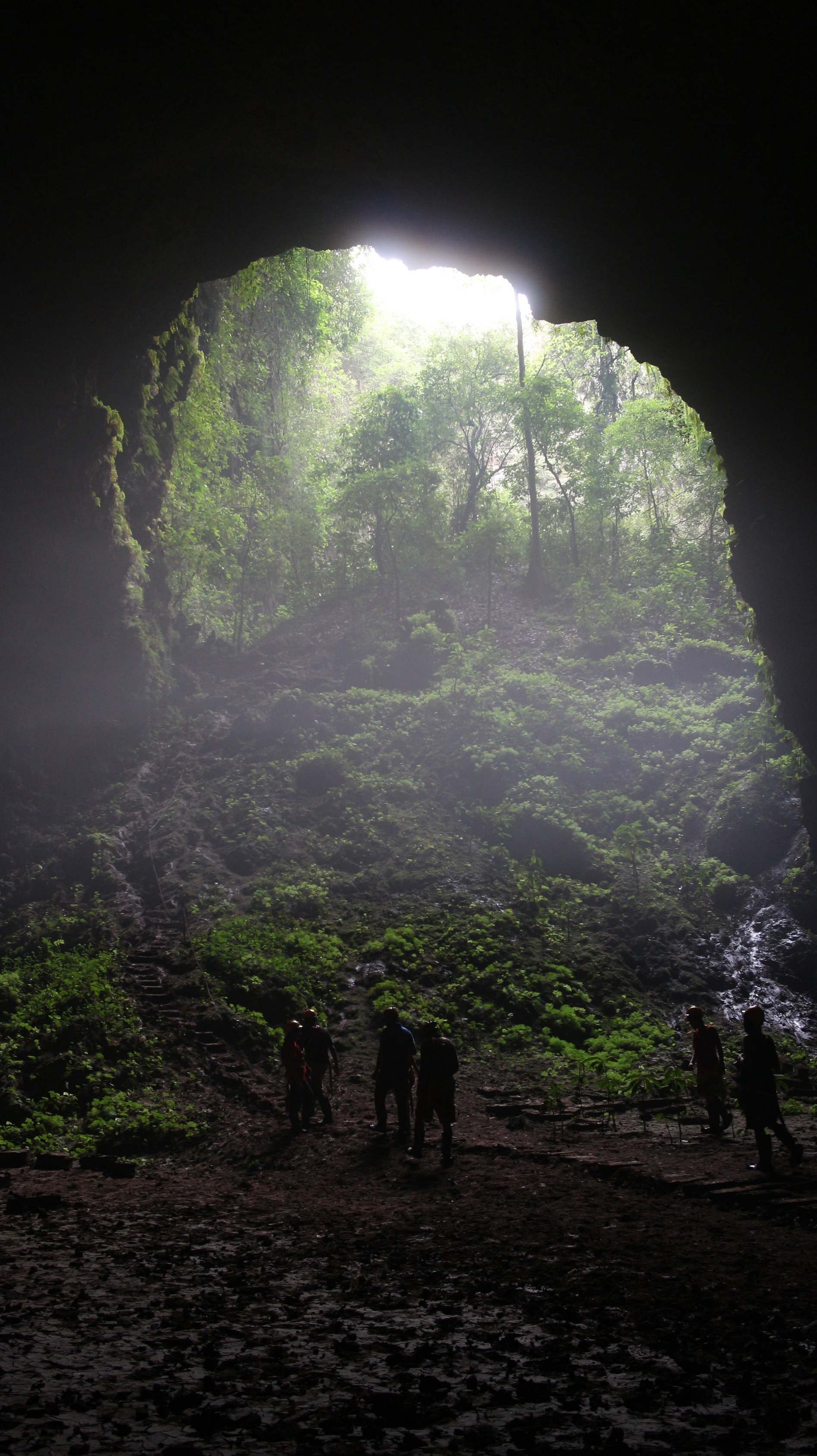 JOMBLANG CAVE , GUNUNGKIDUL